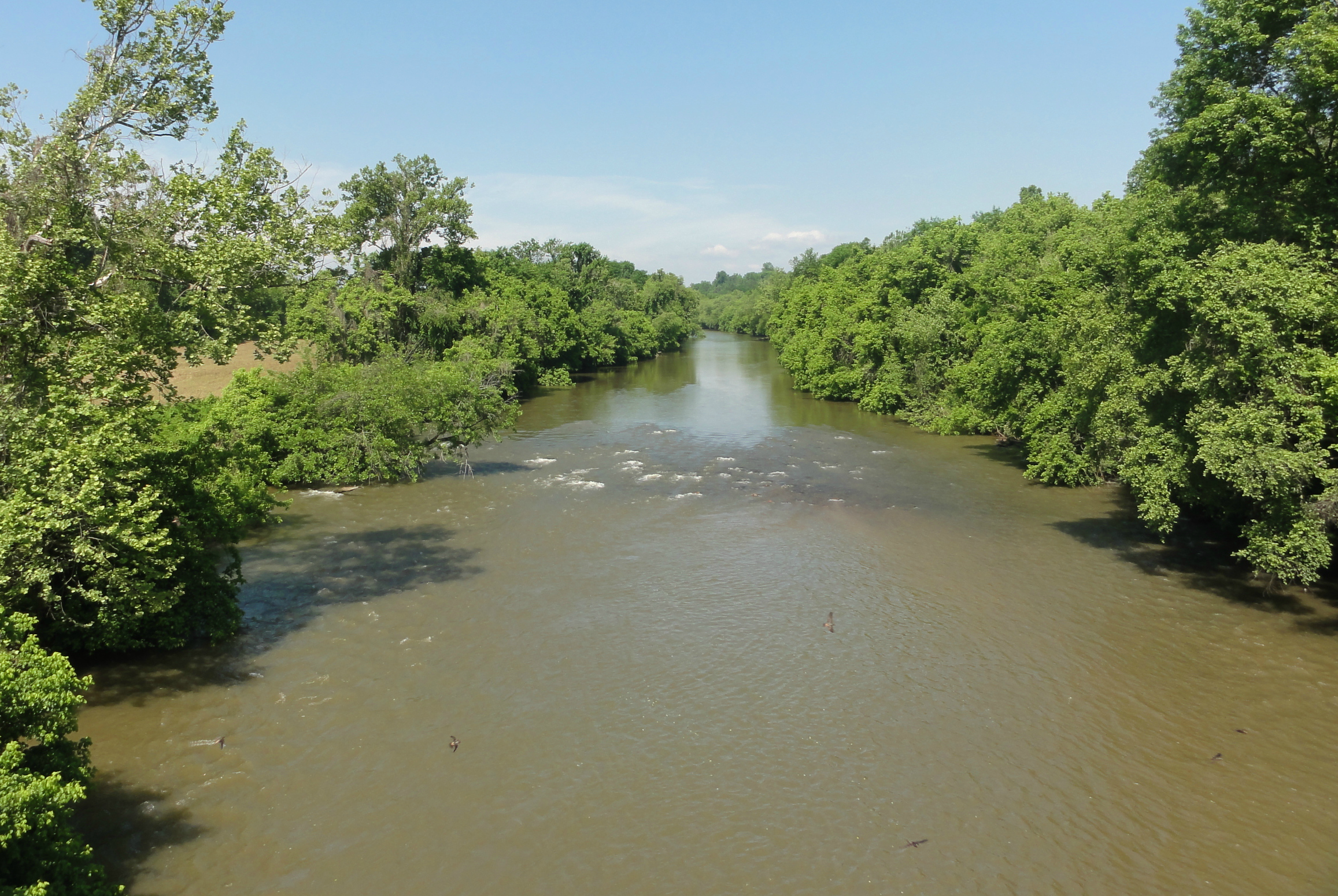 The Yadkin River as viewed upstream from Bridge Street in Elkin, North Carolina